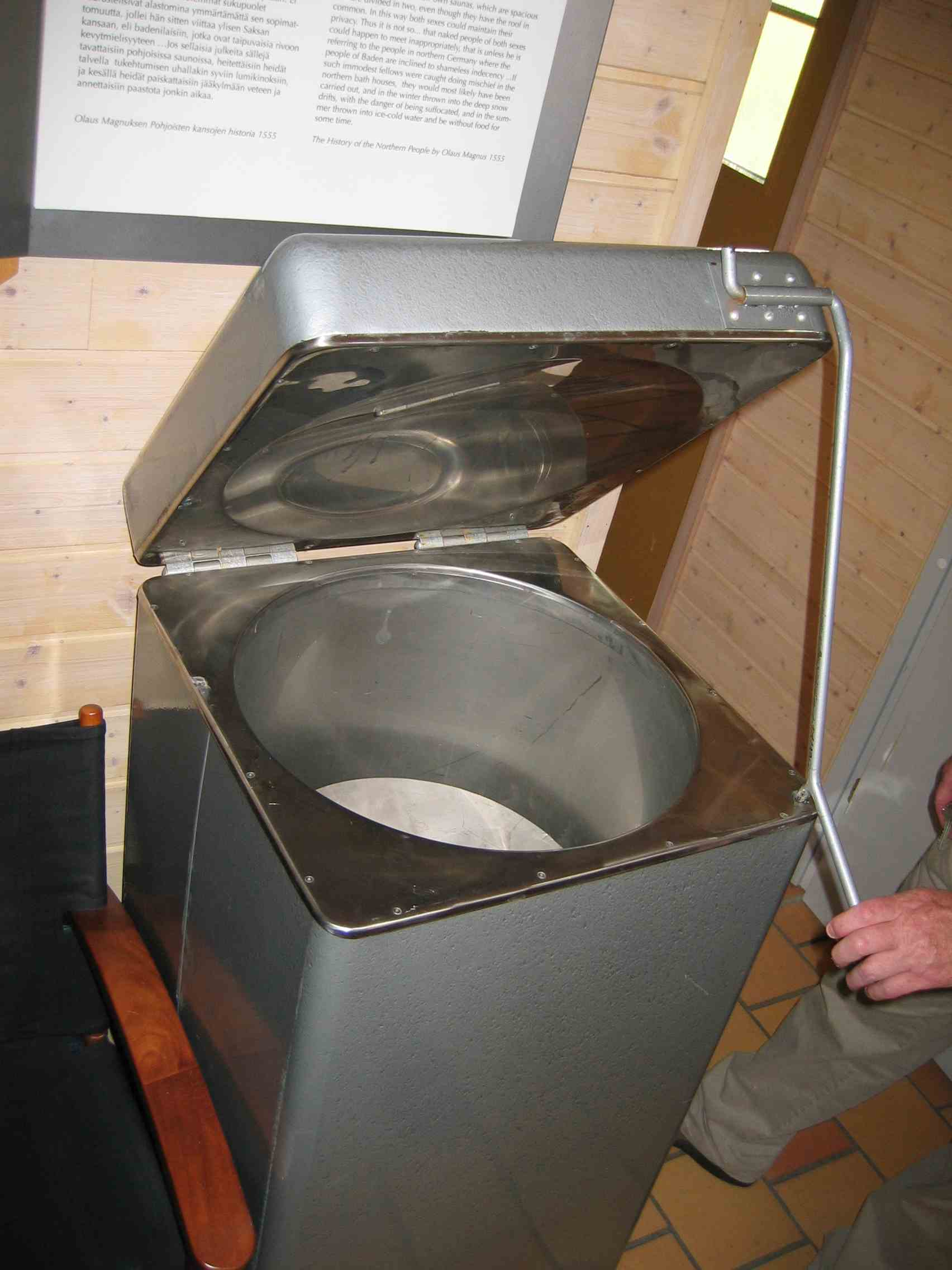 First electrical sauna stove model manifactured in Finland, made by Helo during 1950's.